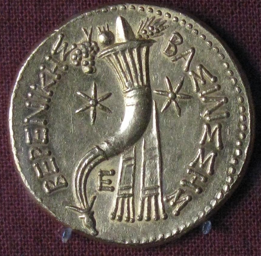 Reverse of coin of Berenice II: portrait silver